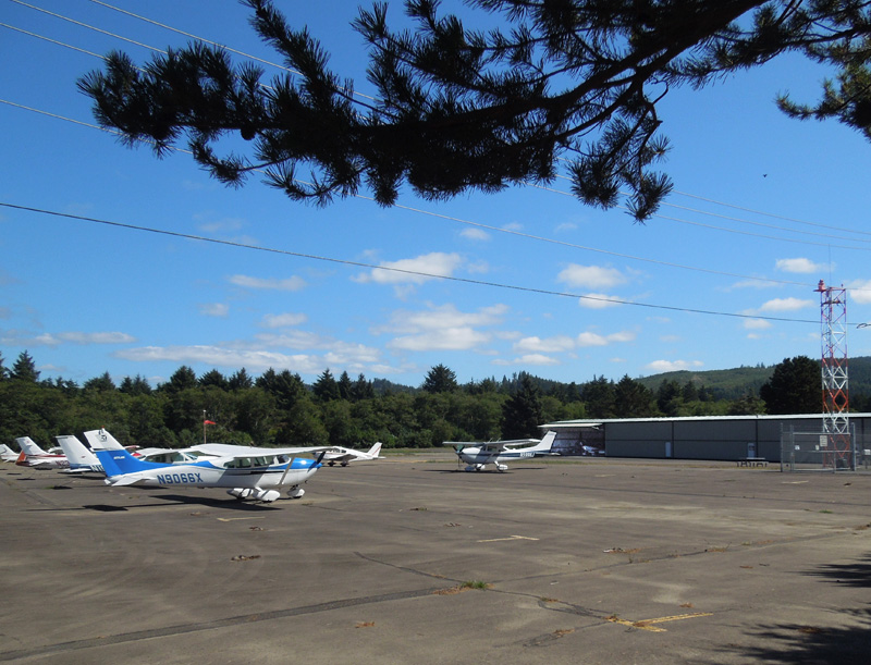 Seaside Municipal Airport parking apron, hangars and beacon tower, with several transient aircraft parked.